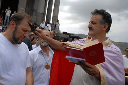 Hetan priest initiating follower at the Temple of Vahagn in Garni, Armenia.